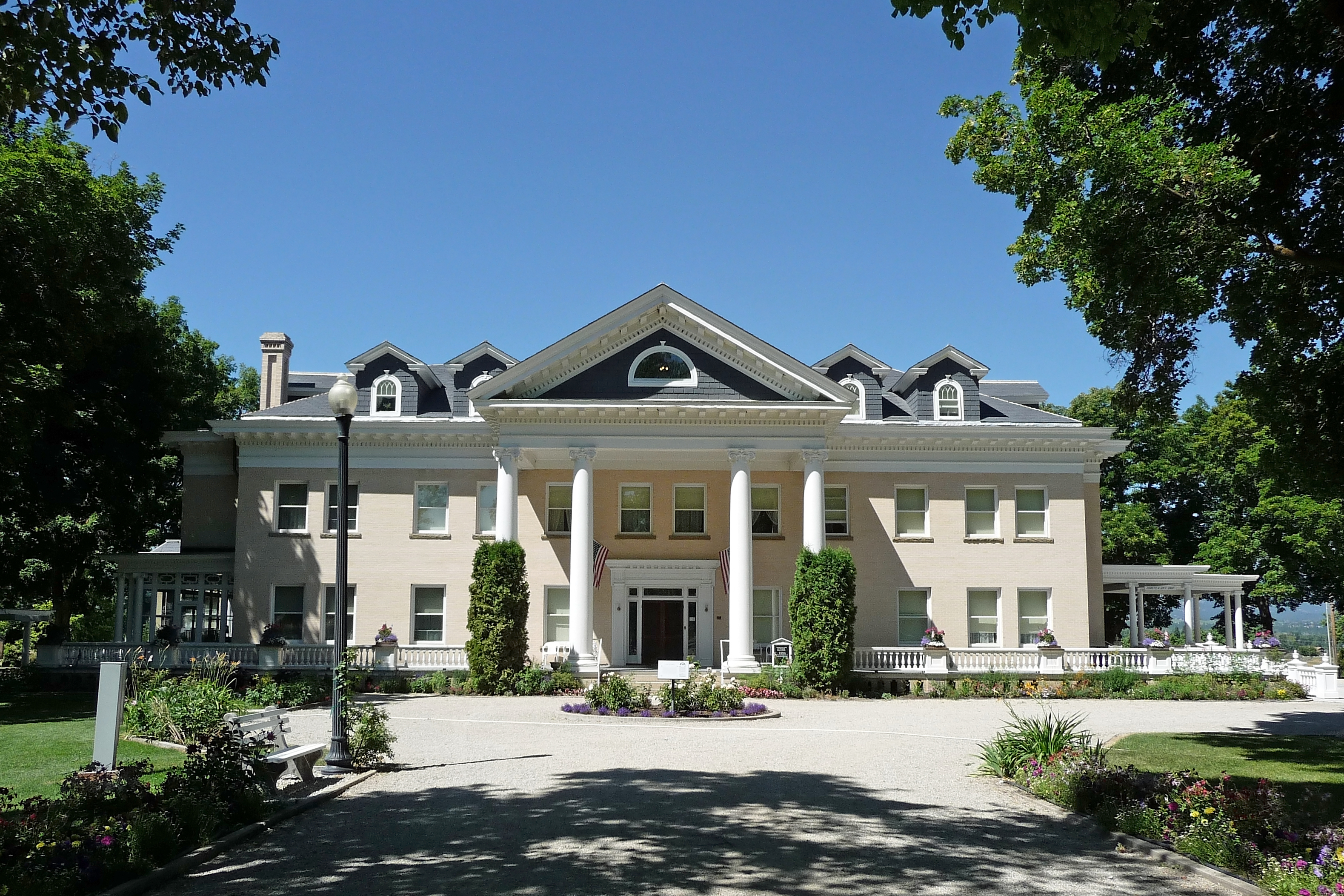 Summer home of Marcus Daly in Hamilton, Montana, USA